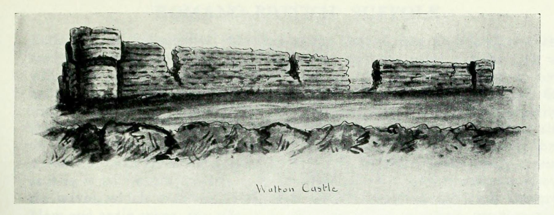 Drawing of the Roman Saxon Shore fort known as "Walton Castle", in Felixstowe, Suffolk. From: The Victoria history of the county of Suffolk, Volume 1. Published 1907. The drawing is dated to 1623.